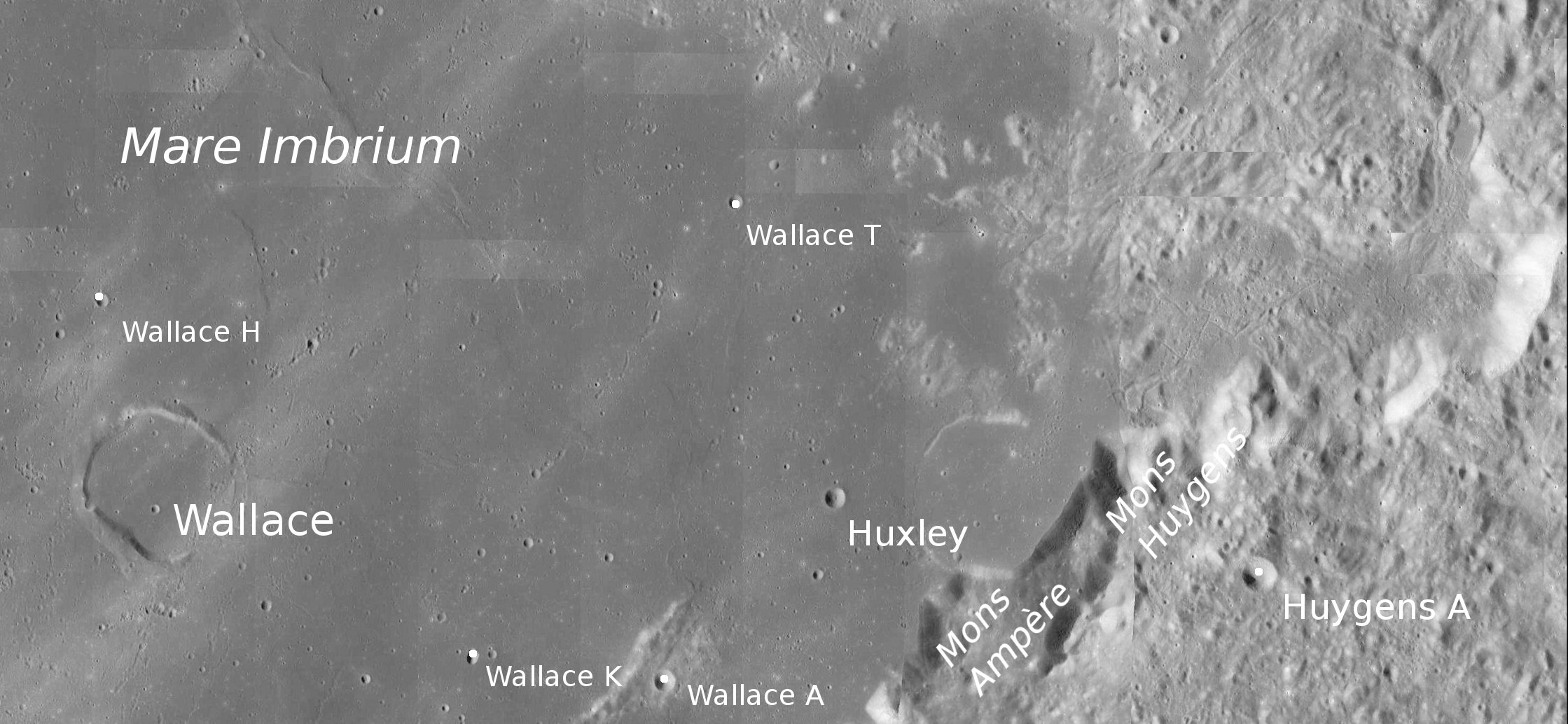 Craters Wallace and Huxley (detail of LROC - WAC global moon mosaic)